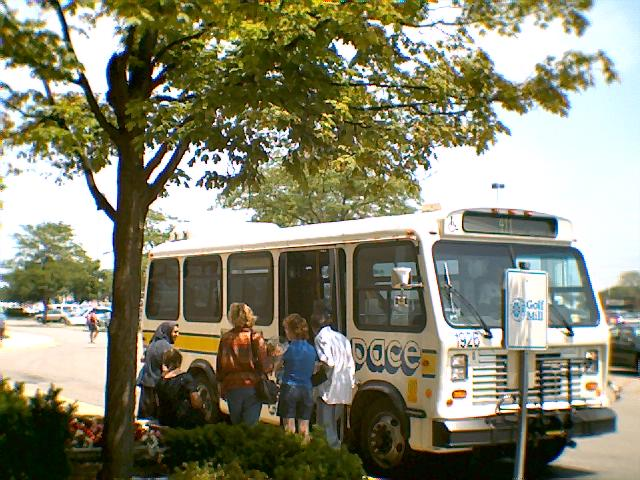 Niles, Illinois Chance RT-52, Free Bus at Golf Mill Category:Images of Niles, Illinois